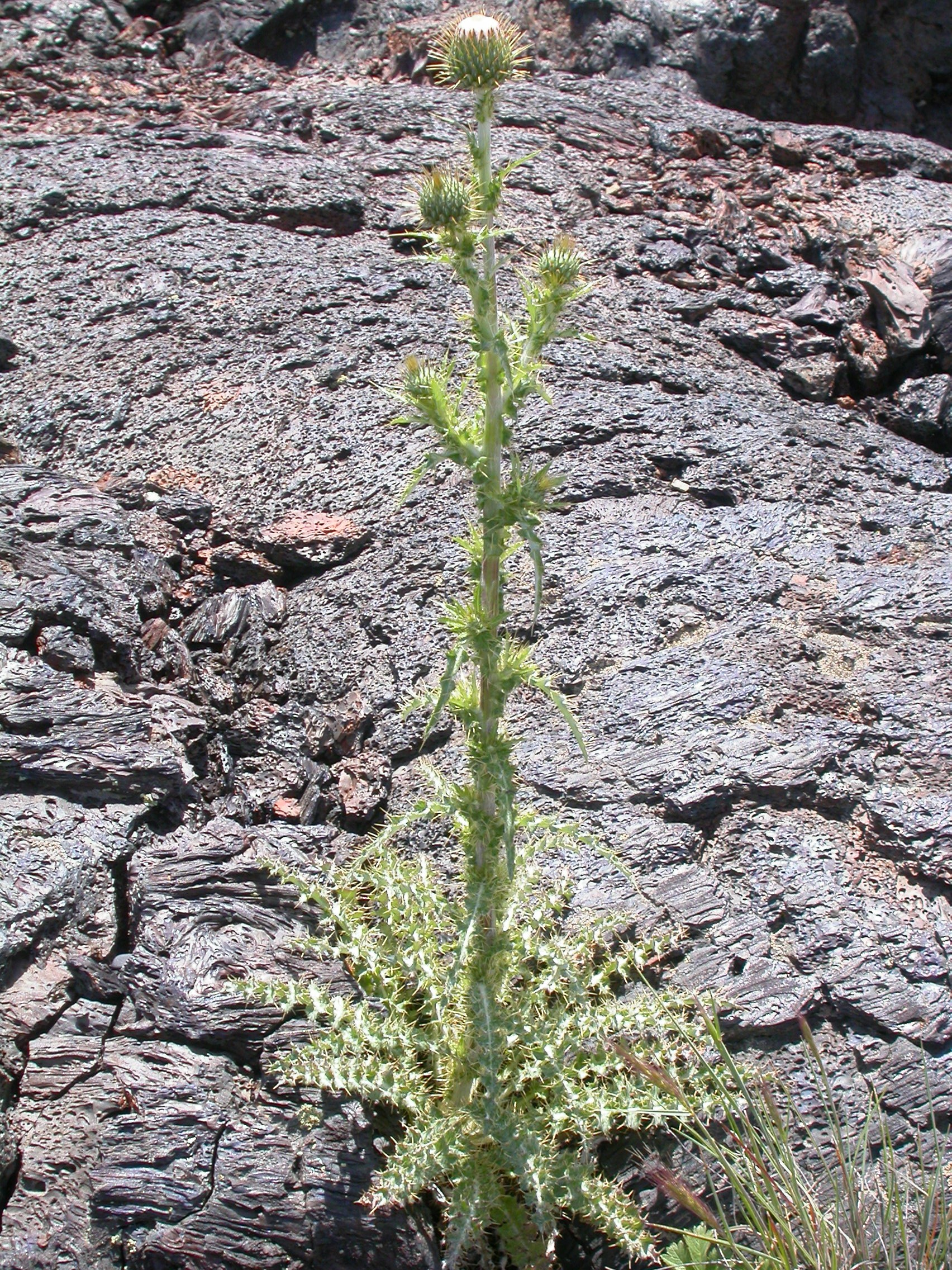 Cirsium subniveum, Butte County, Idaho, USA